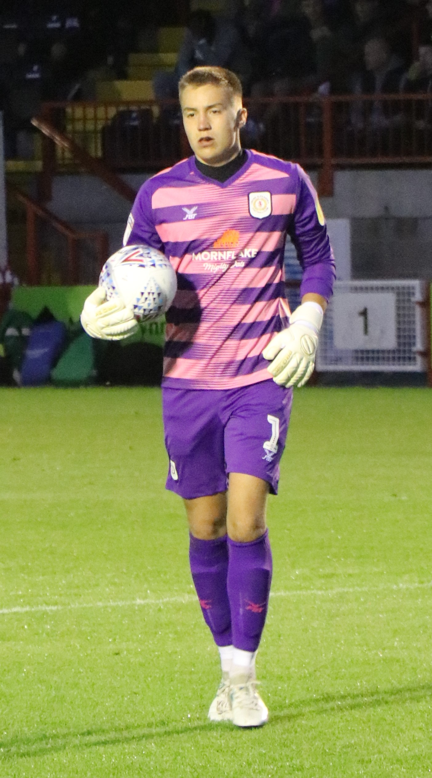 Finnish goalkeeper Will Jaaskeleinen playing for Crewe Alexandra, pictured at Crawley Town